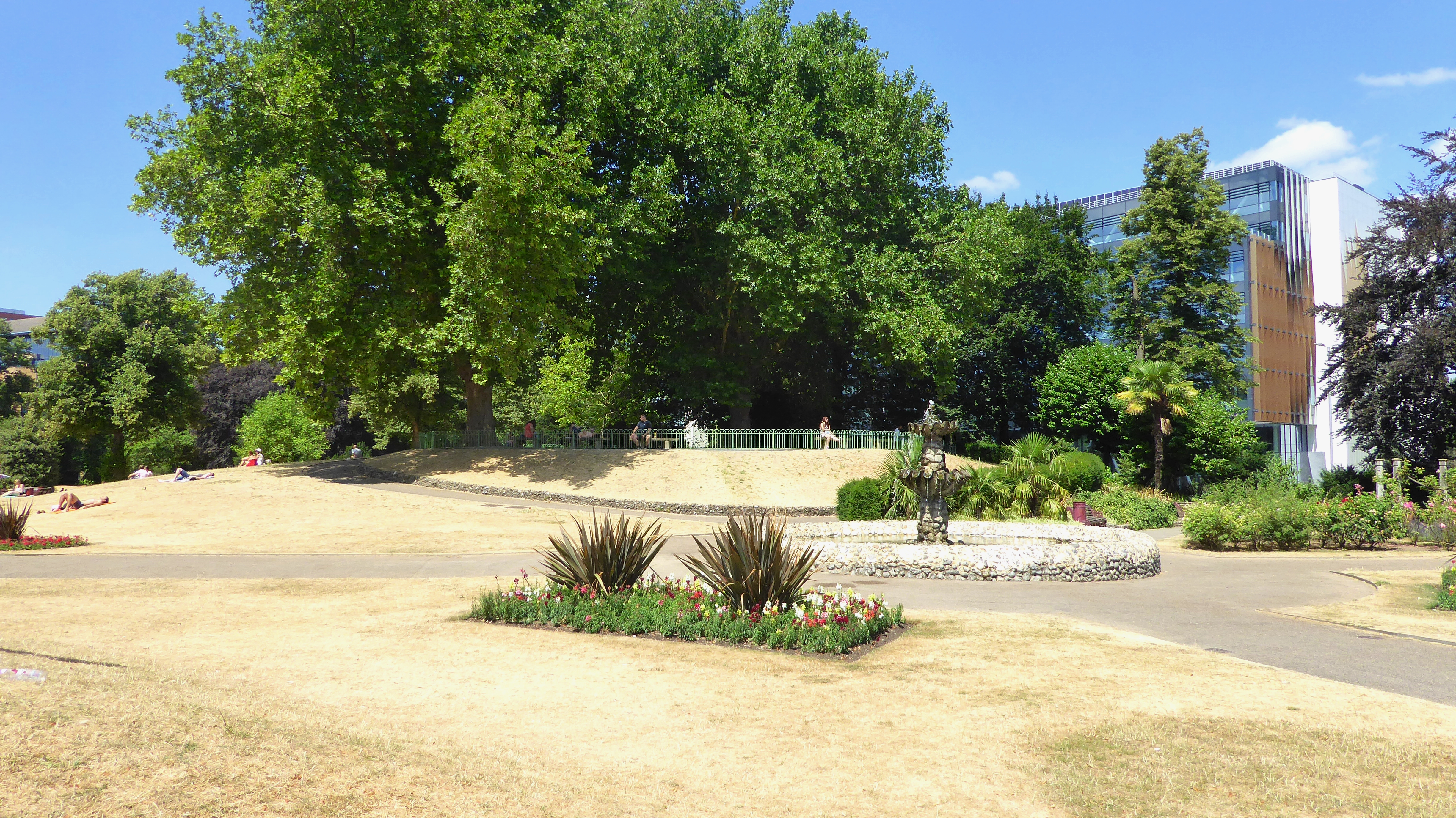 Forbury Hill, a civil war-era site in Forbury Gardens, Reading. Photograph taken from the south-east of the monument.